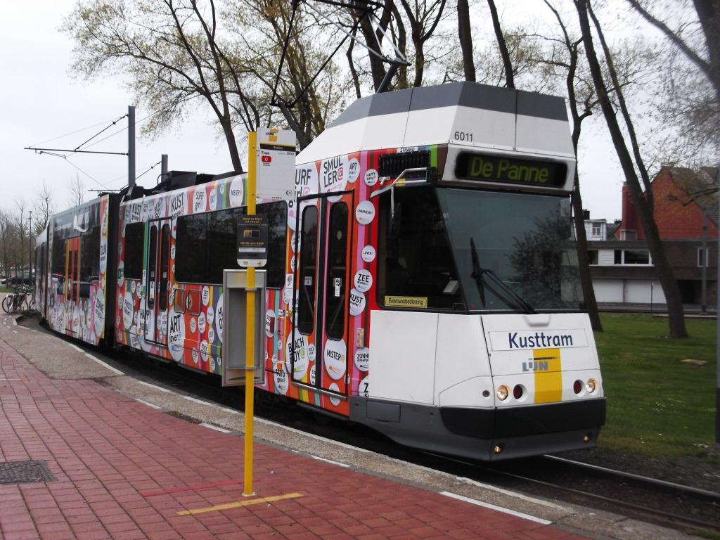 Coast tram, Belgie, Knokke